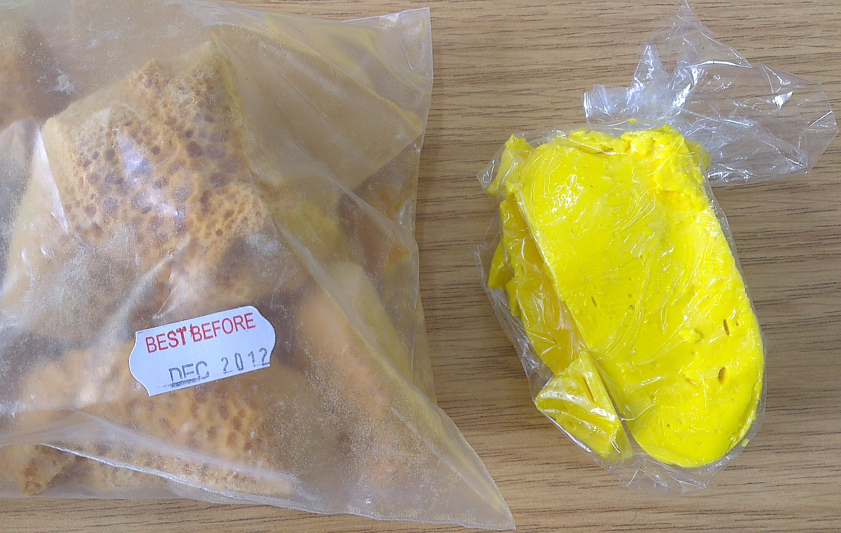 A comparison between Yellowman Candy and traditional Honeycomb, both bought from Lammas Fair, 2012.